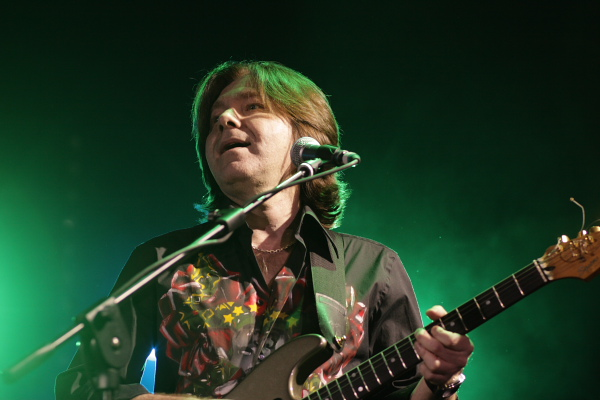 Vladimir Gustov at a concert in the Milk Moscow Club on December 10, 2009.